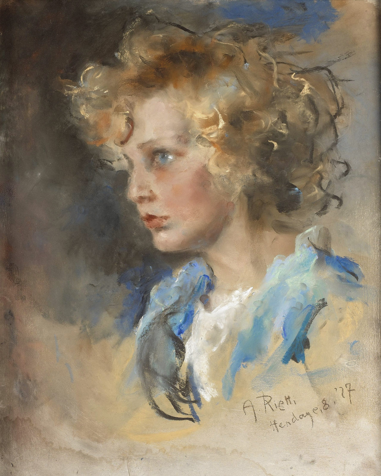 Roland Bugatti, aged 5 mixed media of pastel and gouache 45 x 37 cm signed b.r.: A. Rietti / Hendaye 8'27